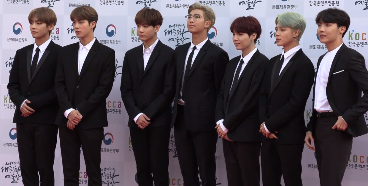 BTS on the red carpet of Korean Popular Culture & Arts Awards on October 24, 2018.